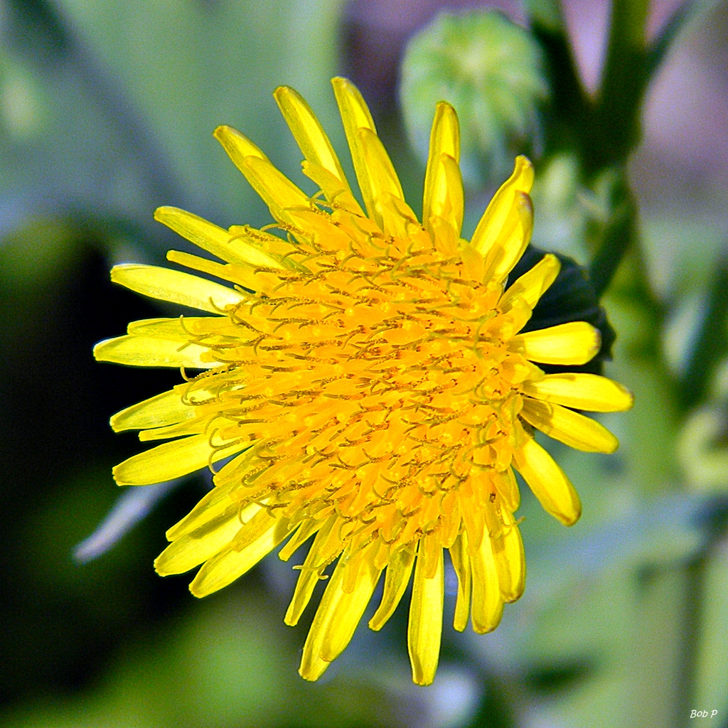 Sowthistle is considered an invasive "weed" but it produces pretty flowers and the young leaves are edible and highly nutritious. It is not actually a thistle but instead is closely related to the wild lettuce. The dandelion-like seeds are distributed by wind and I imagine the local harvester ants must look forward to them.